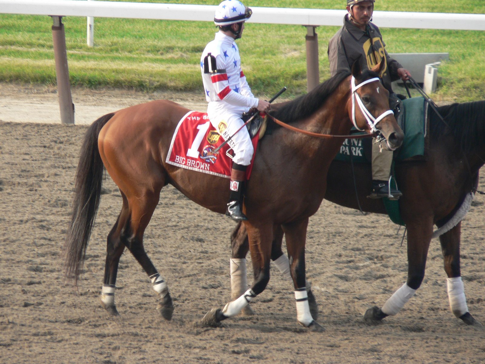 Triple Crown hopeful, Big Brown, who was defeated in the 2008 Belmont Stakes by Da'Tara.